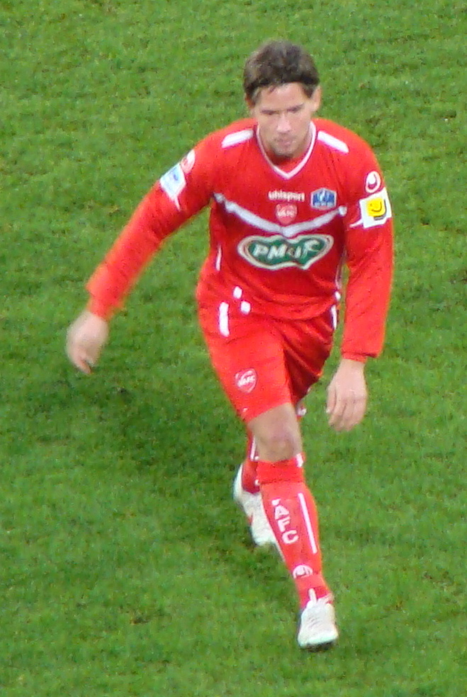 Dusan Djuric (Valenciennes player)